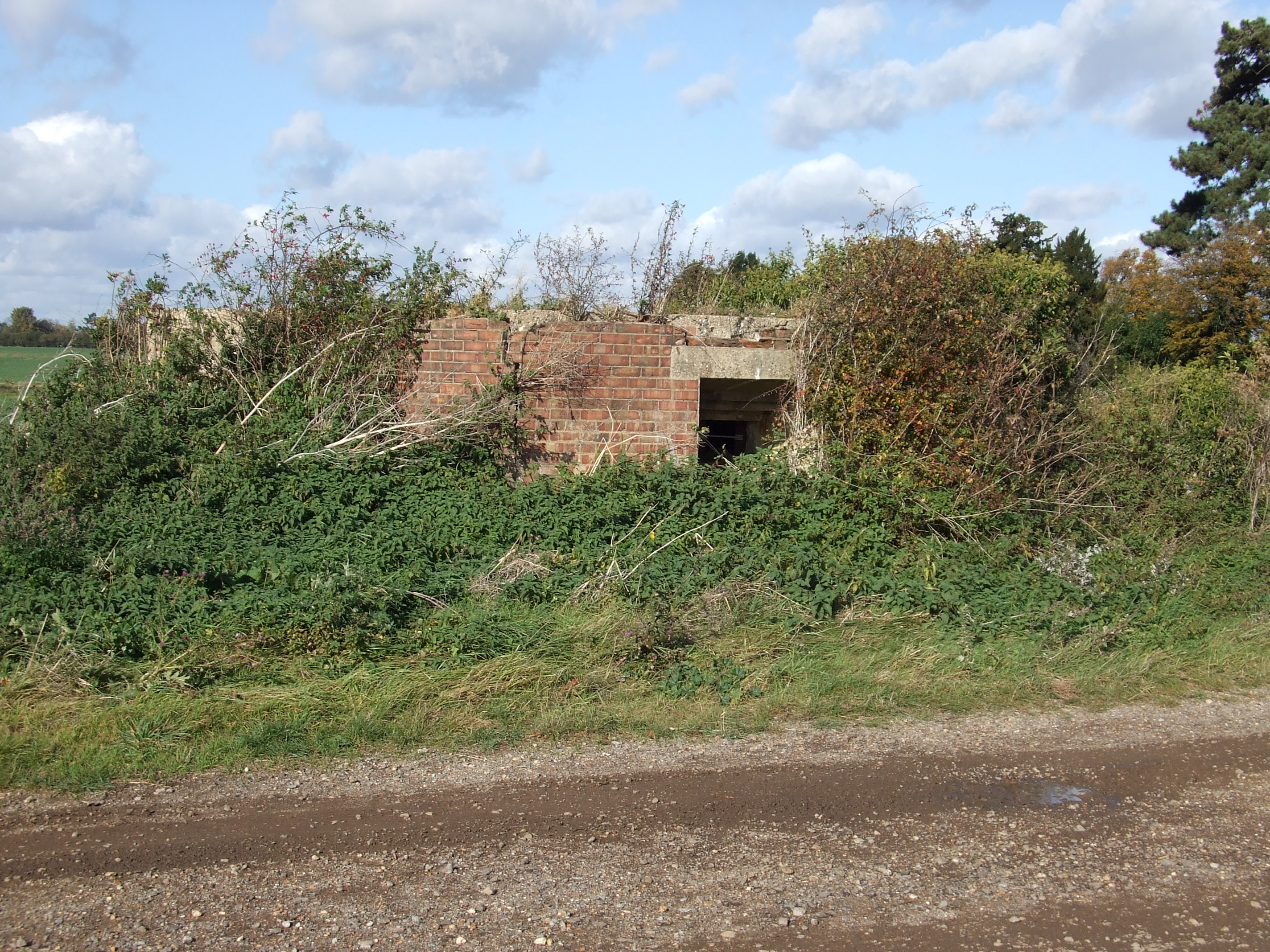 pillbox